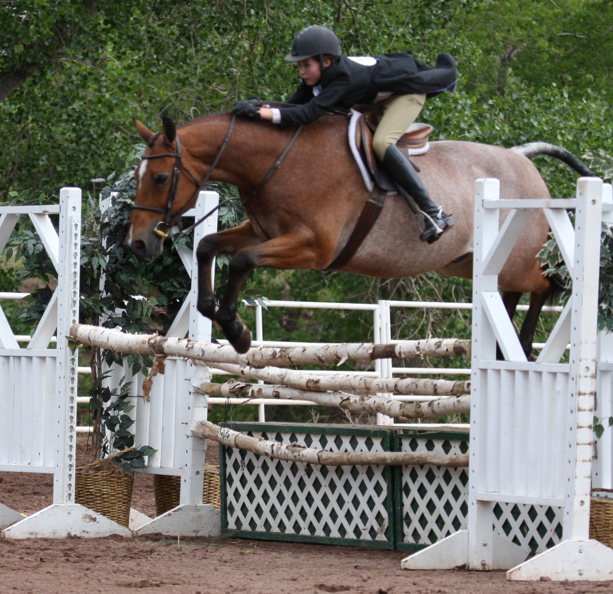 Hunter Holloway in the Hunter Derby